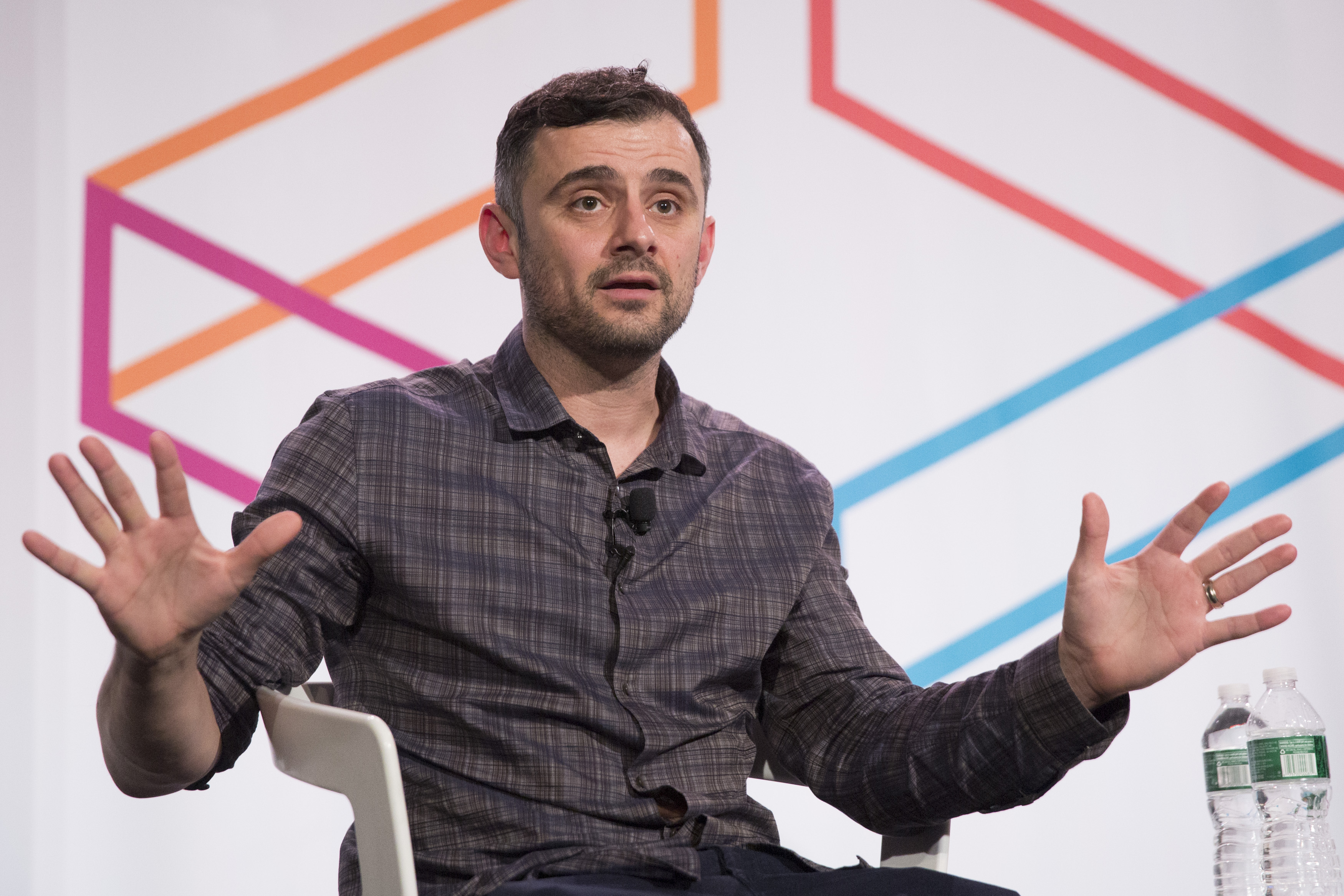 Jeremy Smerd, Executive Editor of Crain’s New York Business hosts Gary Vaynerchuk, CEO at VaynerMedia for Too Good To Fail at Internet Week HQ on Day 2 of Internet Week 2015 in New York May 19, 2015. Insider Images/Andrew Kelly (UNITED STATES)